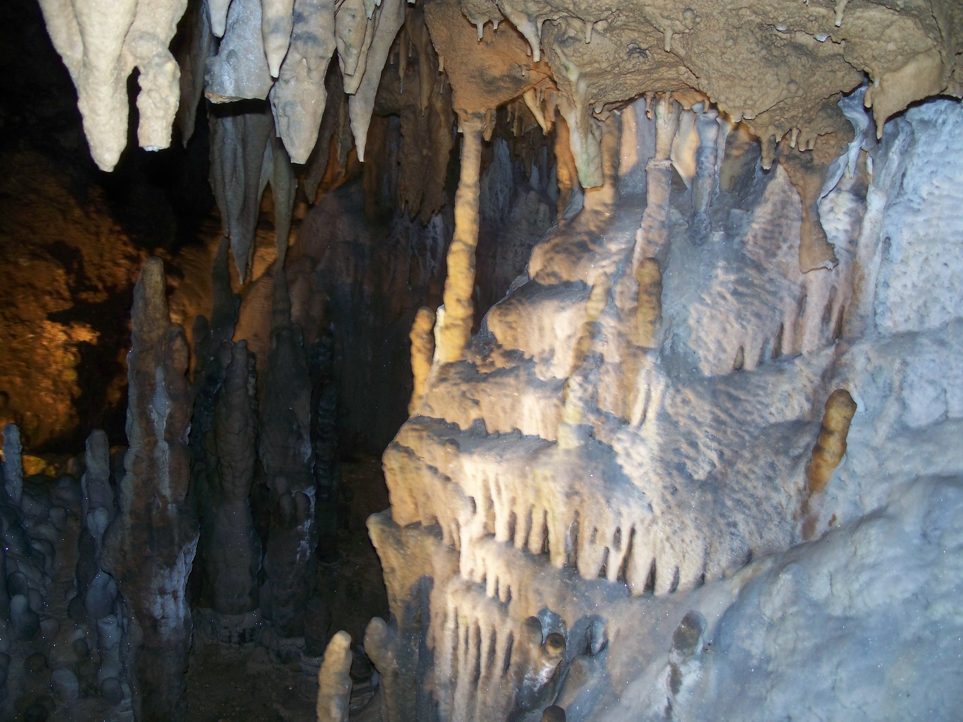 Inside the caverns at Florida Caverns State Park, in Marianna, Florida